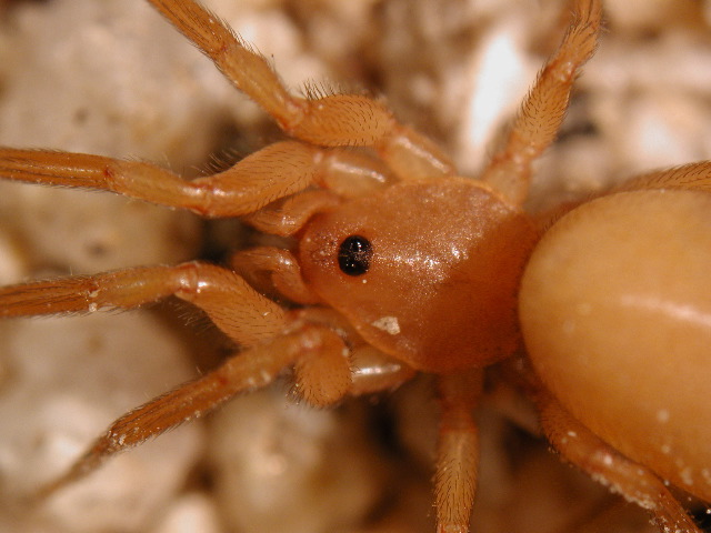 unknown species of Caponiidae, female. Baja California